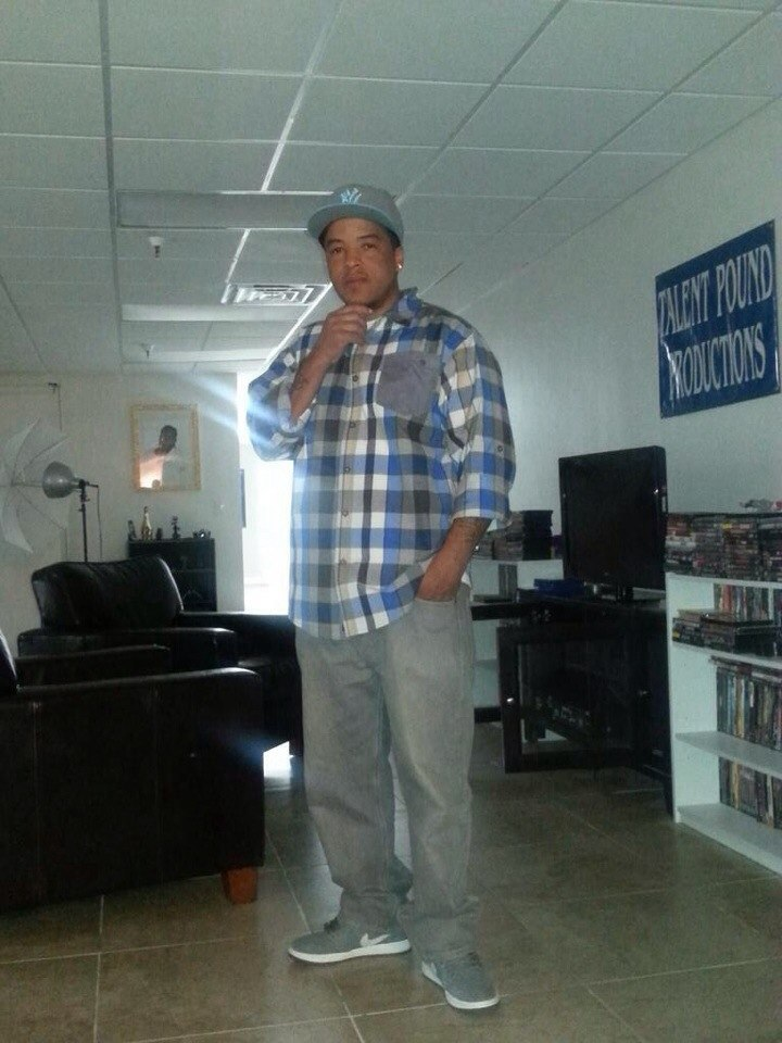 Da